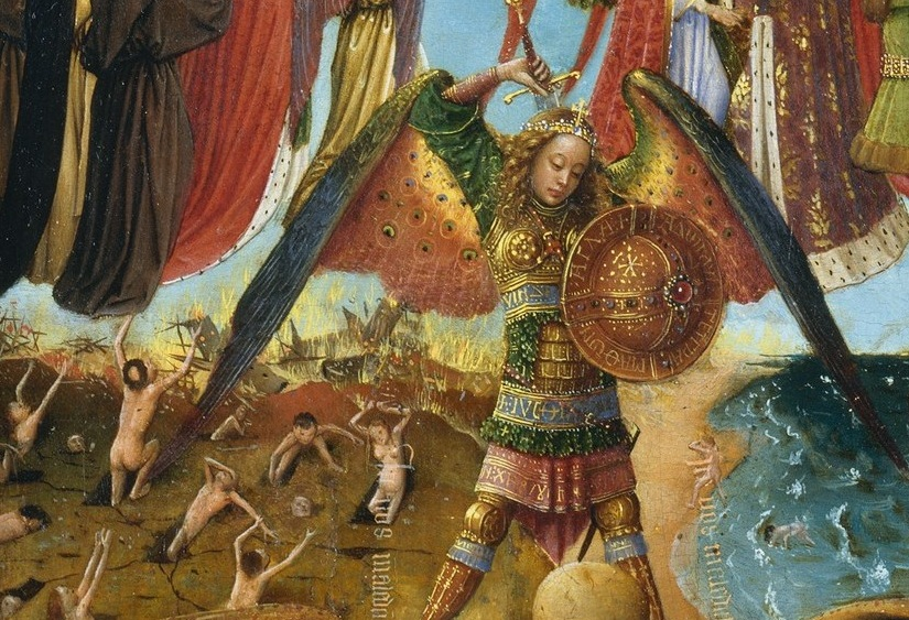 Detail showin the Archangel Michael